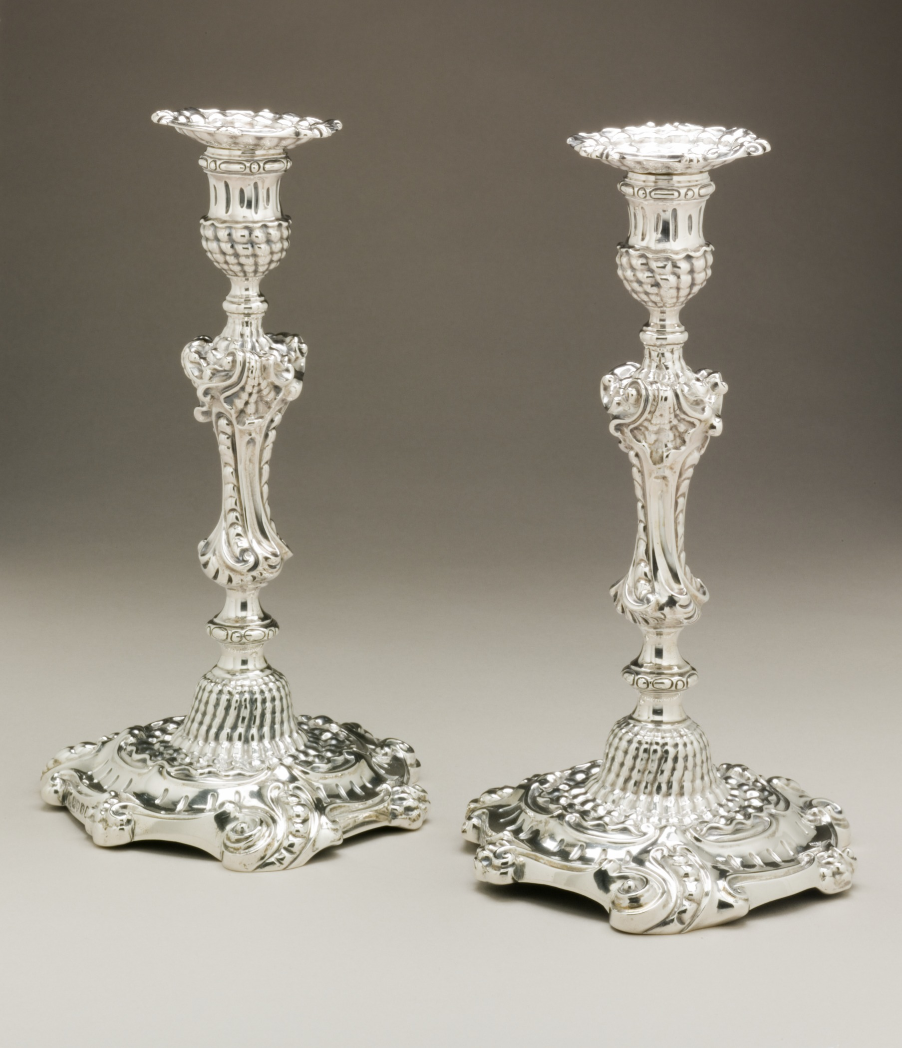 England, London, 1833-1834 Furnishings; Lighting Silver Height: 9 1/2 in. (24.13 cm) each Gift of Mrs. William Chilton (M.62.46.41a-b) Decorative Arts and Design